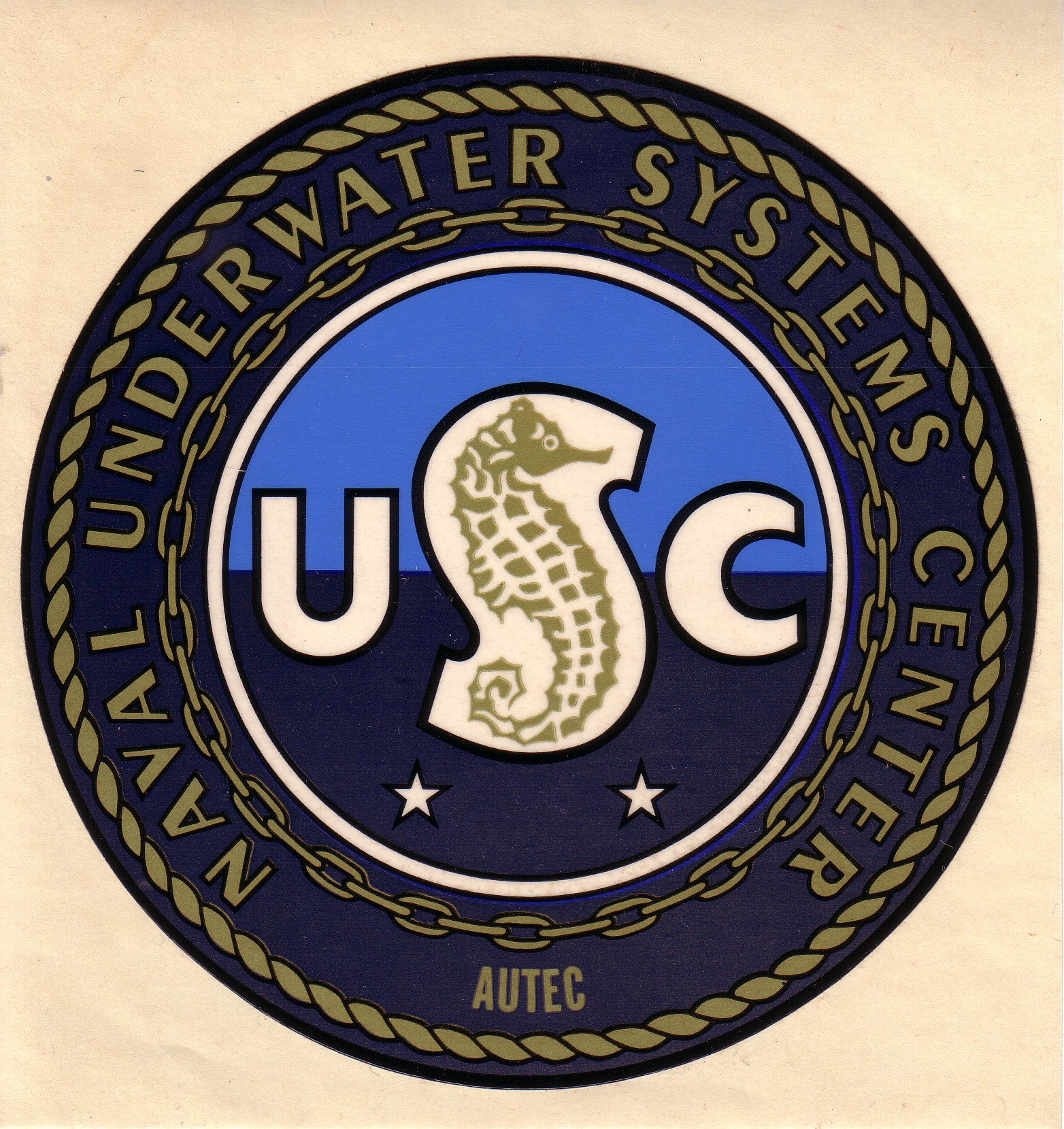 AUTEC - Atlantic Undersea Test and Evaluation Center LOGO, Andros Island, Bahamas